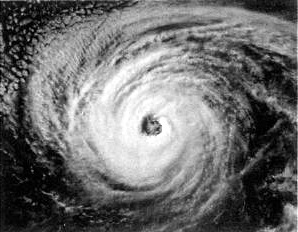 Visible satellite picture of Hurricane Fico with 135 mph winds on July 17, 1978